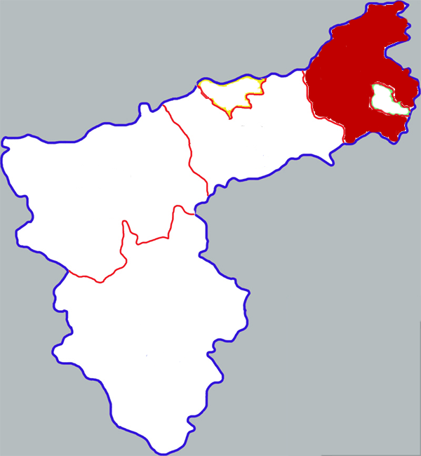 Location of Mianchi county in Sanmenxia city, China